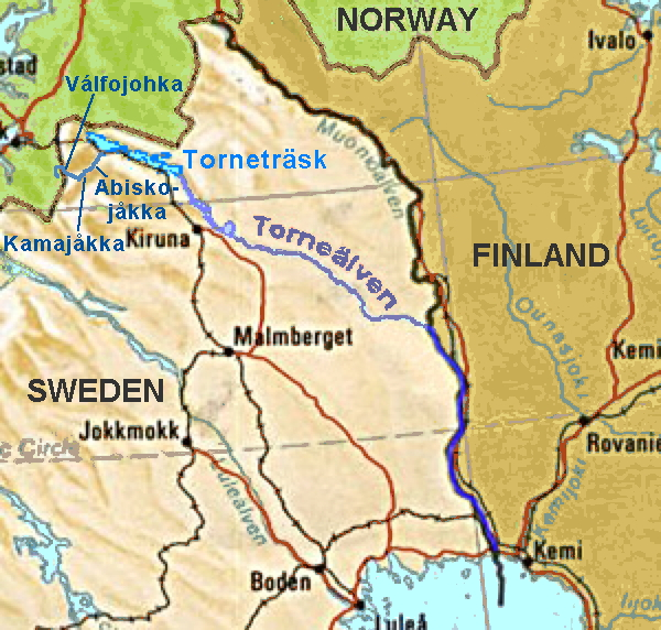 Map of northern Sweden showing location of Torne River From CIA mapping (full map is at )